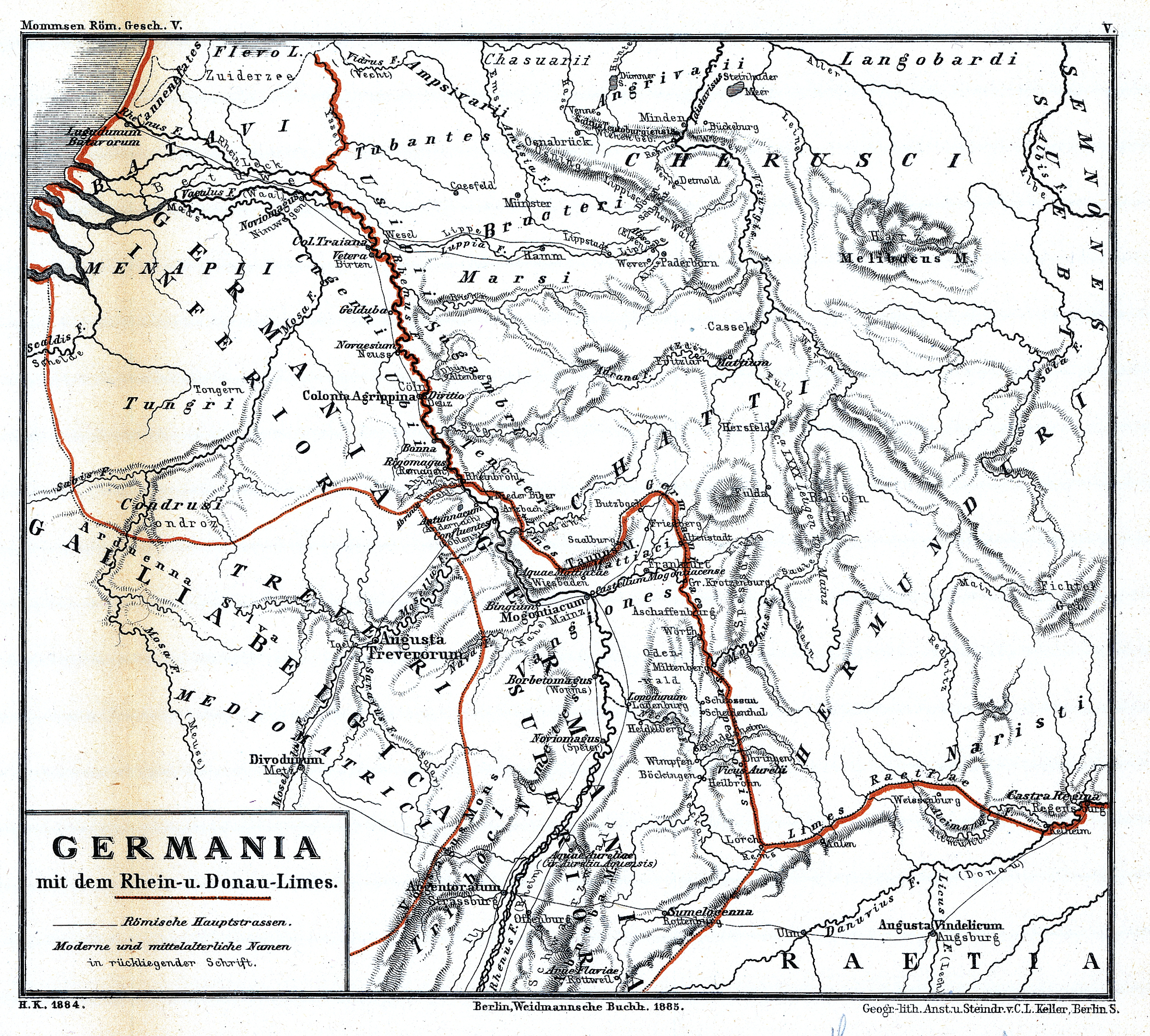 maps of roman provinces, from the book "Römische Provinzen", part V, by Theodor Mommsen